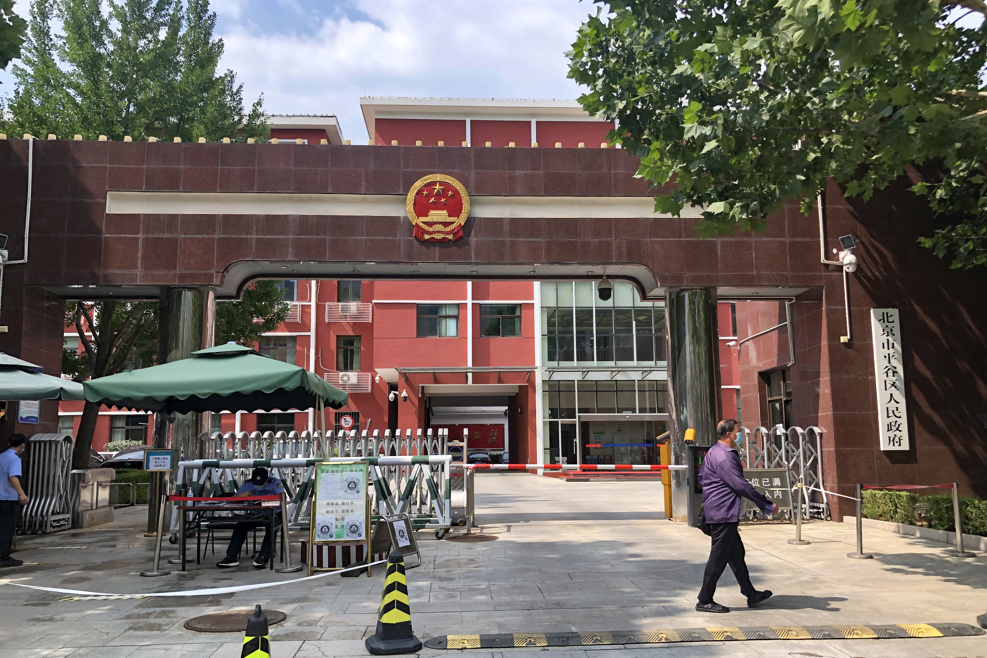 The Pinggu Middle School is just on the south side.